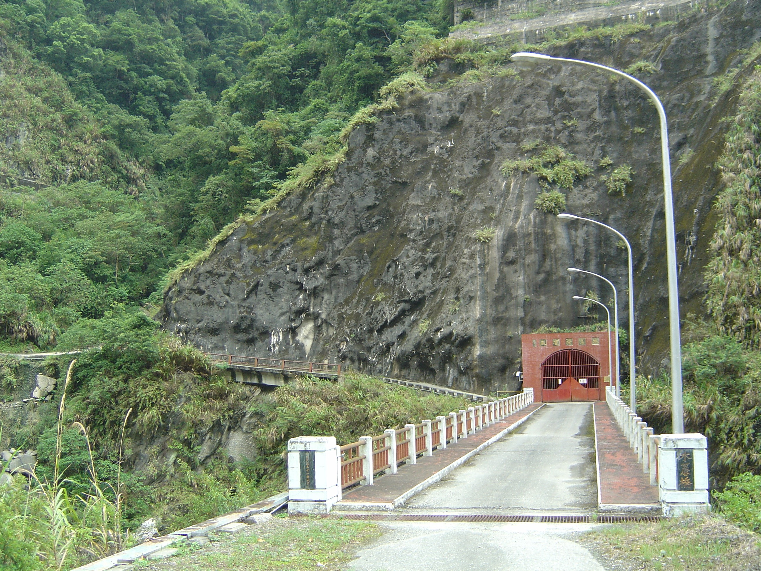 Taiwan power Company The Eastern Power plant Shui-Lien Hydroelectricity Gate